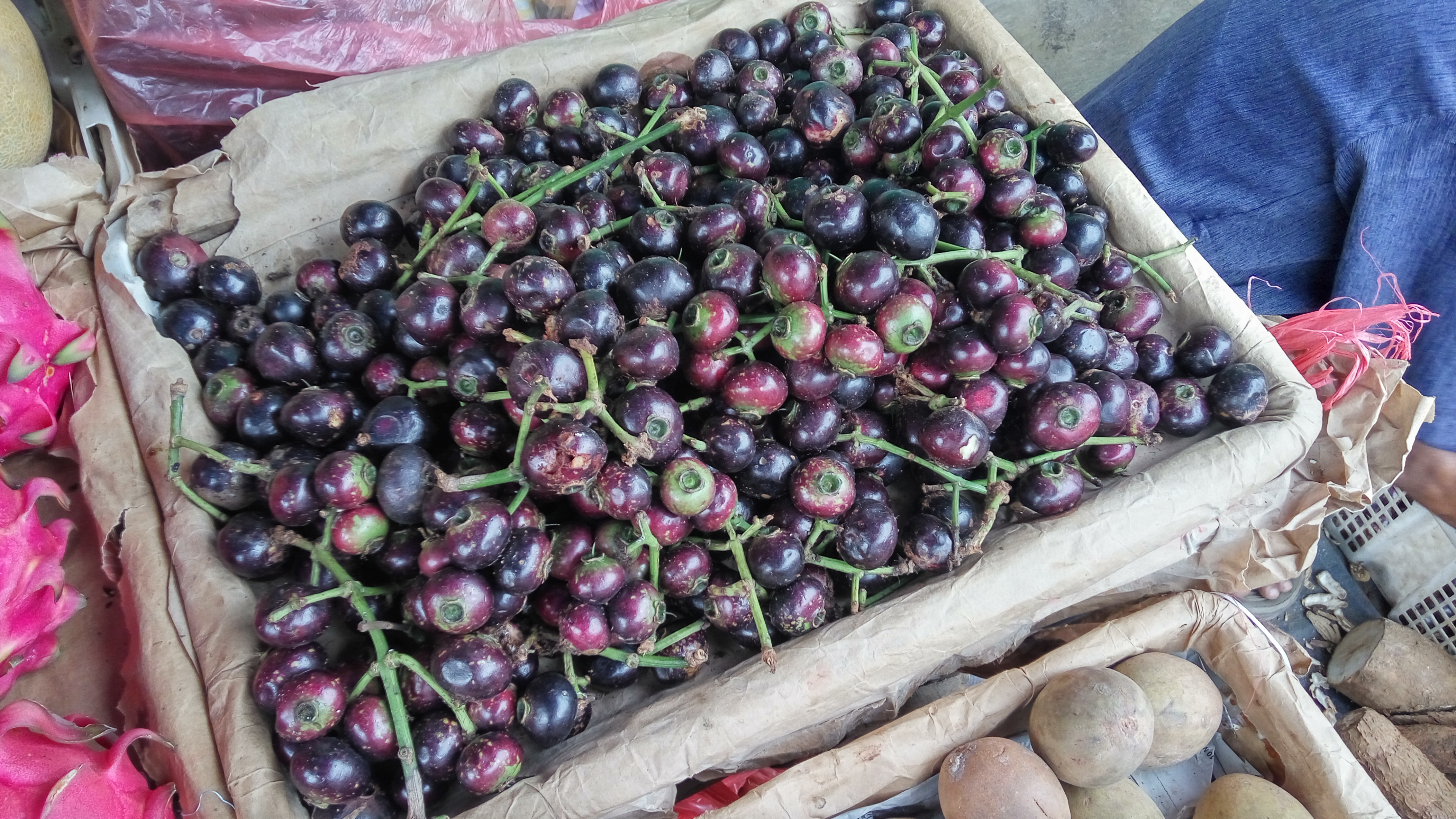 Syzygium polycephalum fruits in traditional market in Bukit Duri, Jakarta, Indonesia